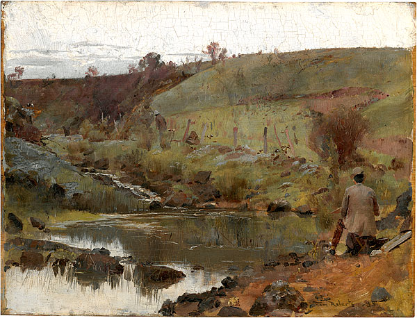 "A quiet day on Darebin Creek[Merri Creek]", Oil on wood panel, 26.4 cm x 34.8 cm